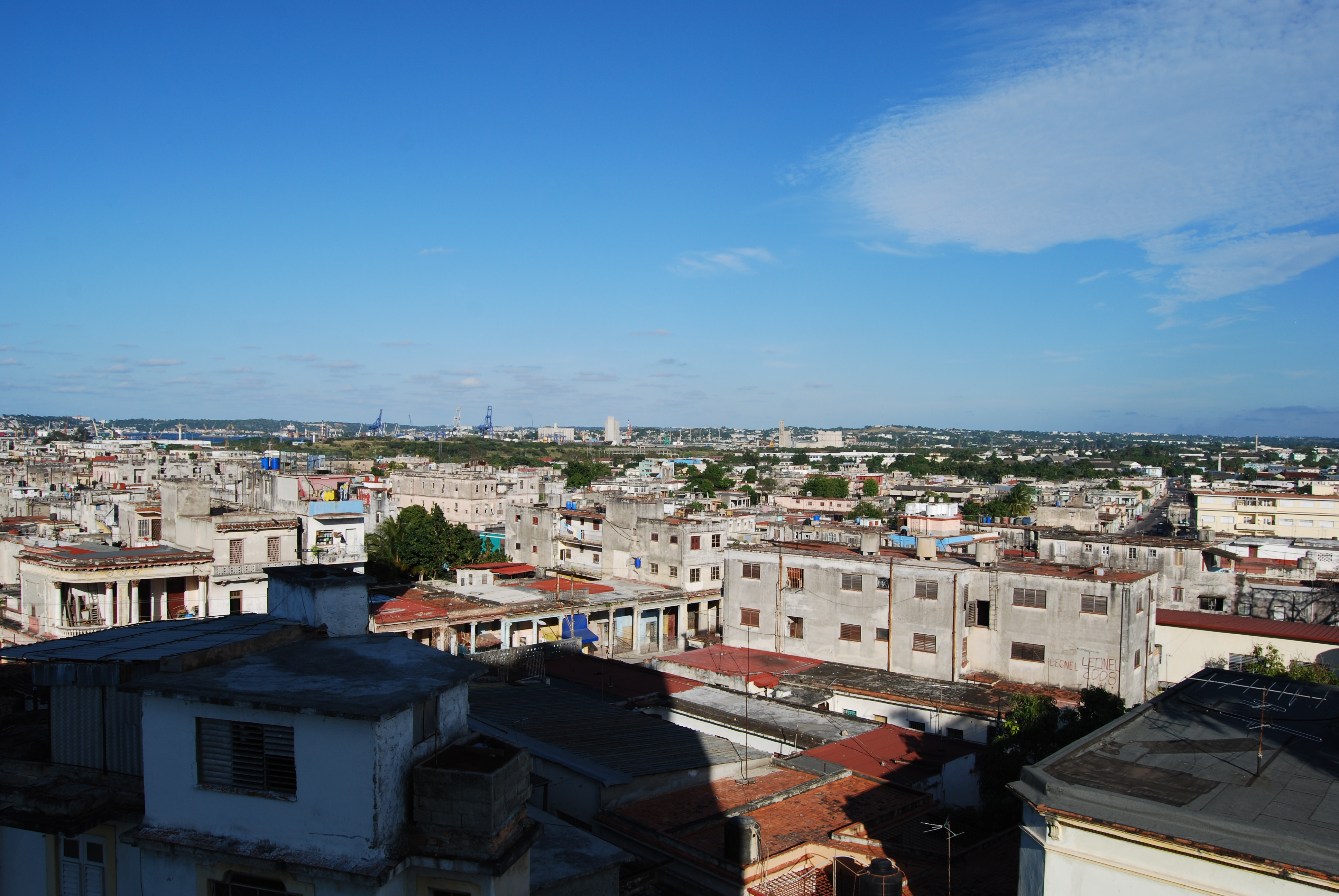 Diez de Octubre (seen from a vindoy of the Hospital of Luyanó), Cuba